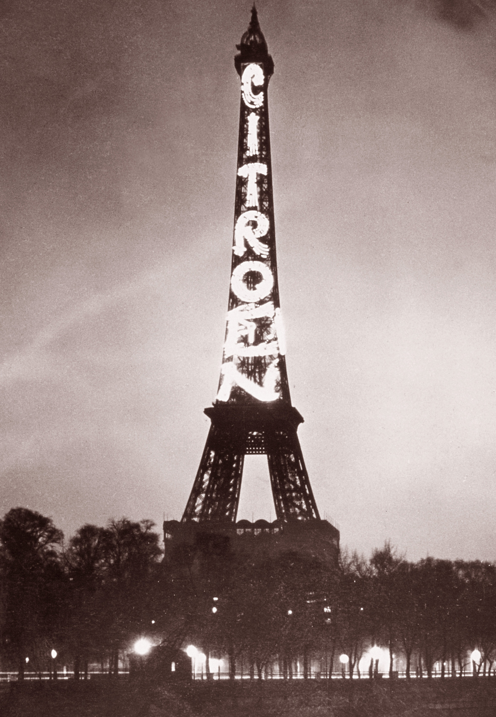 The Eiffel Tower in 1925, with the illuminated publicity sign, imagined by André Citroën, spreading his name vertically in enormous letters.